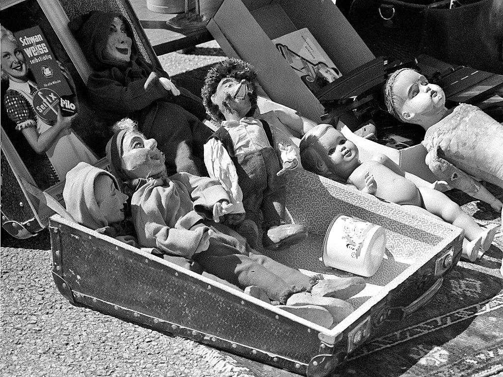 Brokers’ row.